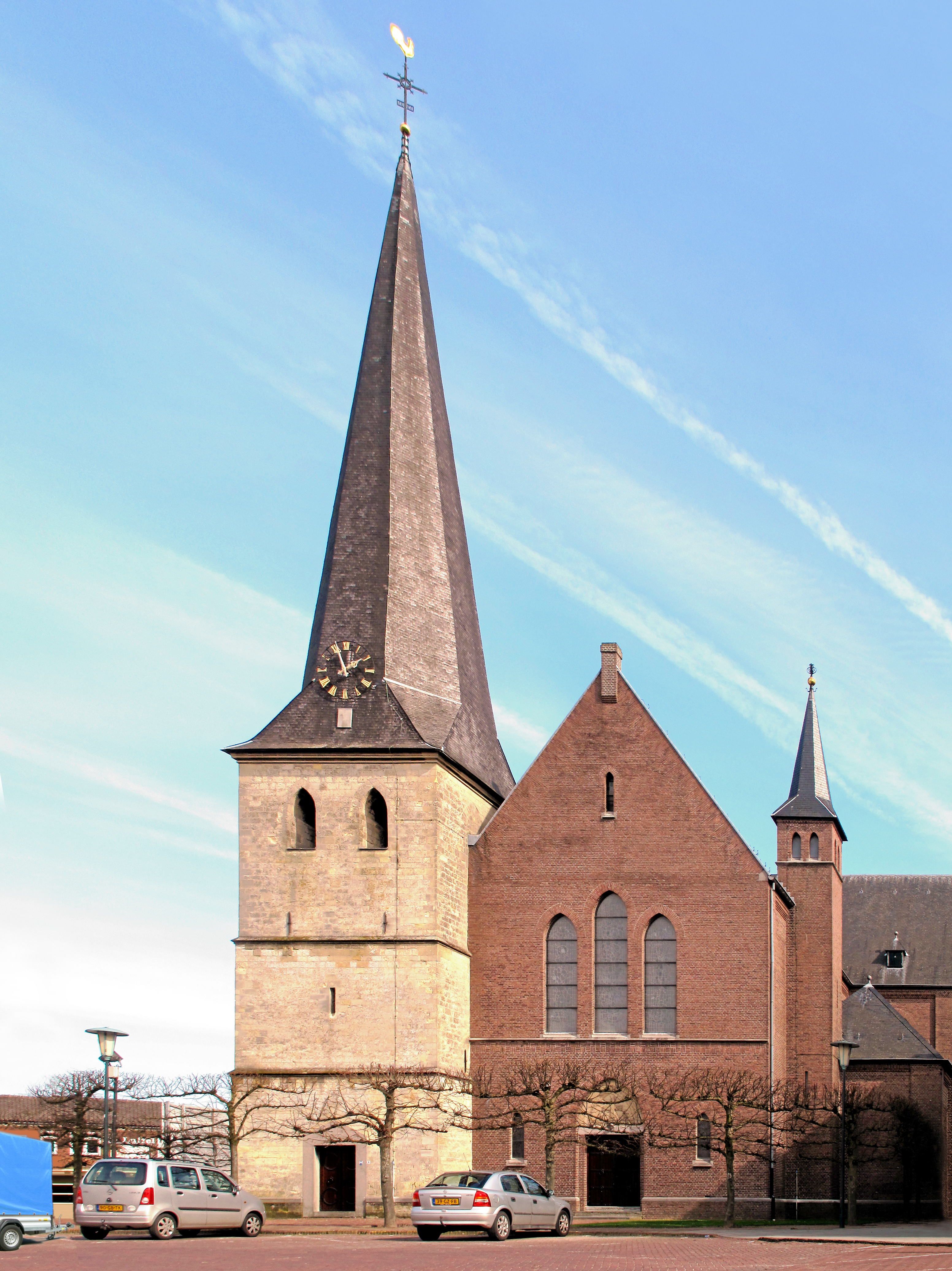 Stramproy, church